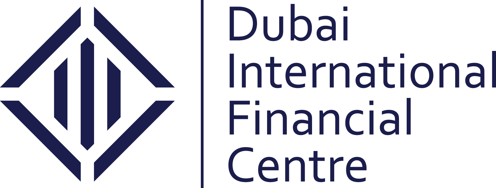 DIFC Logo